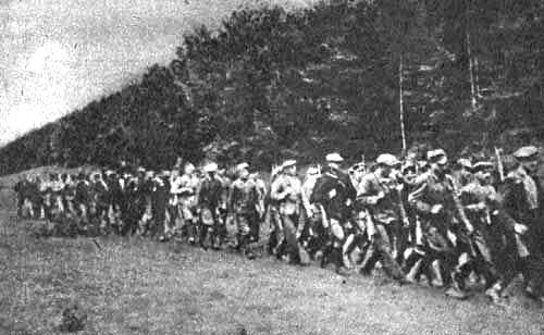 Partizant unit of Armia Ludowa (Peoples Army) in forests around Lublin.